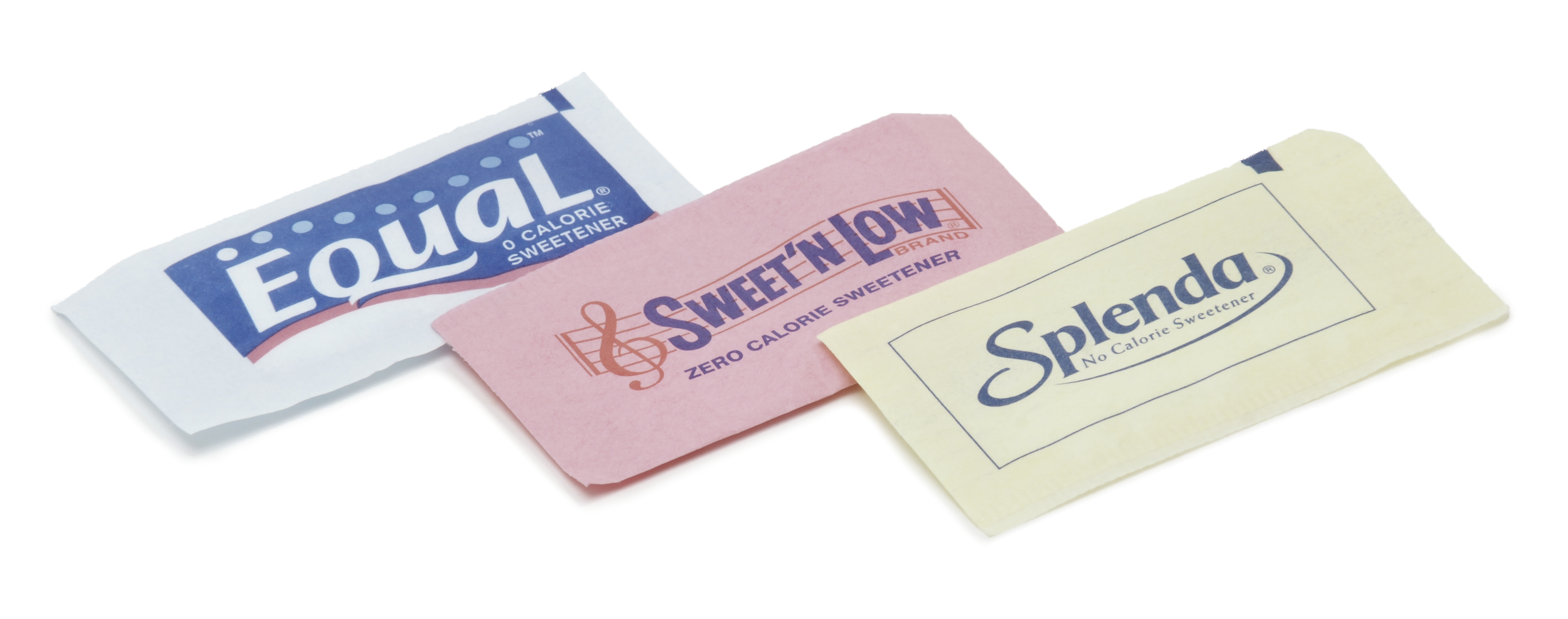 A variety of no calorie/artifical sweetener packets from the United States, usually found in restaurants and eateries that serve hot coffee or tea. From left: Equal, Sweet n Low and Splenda.